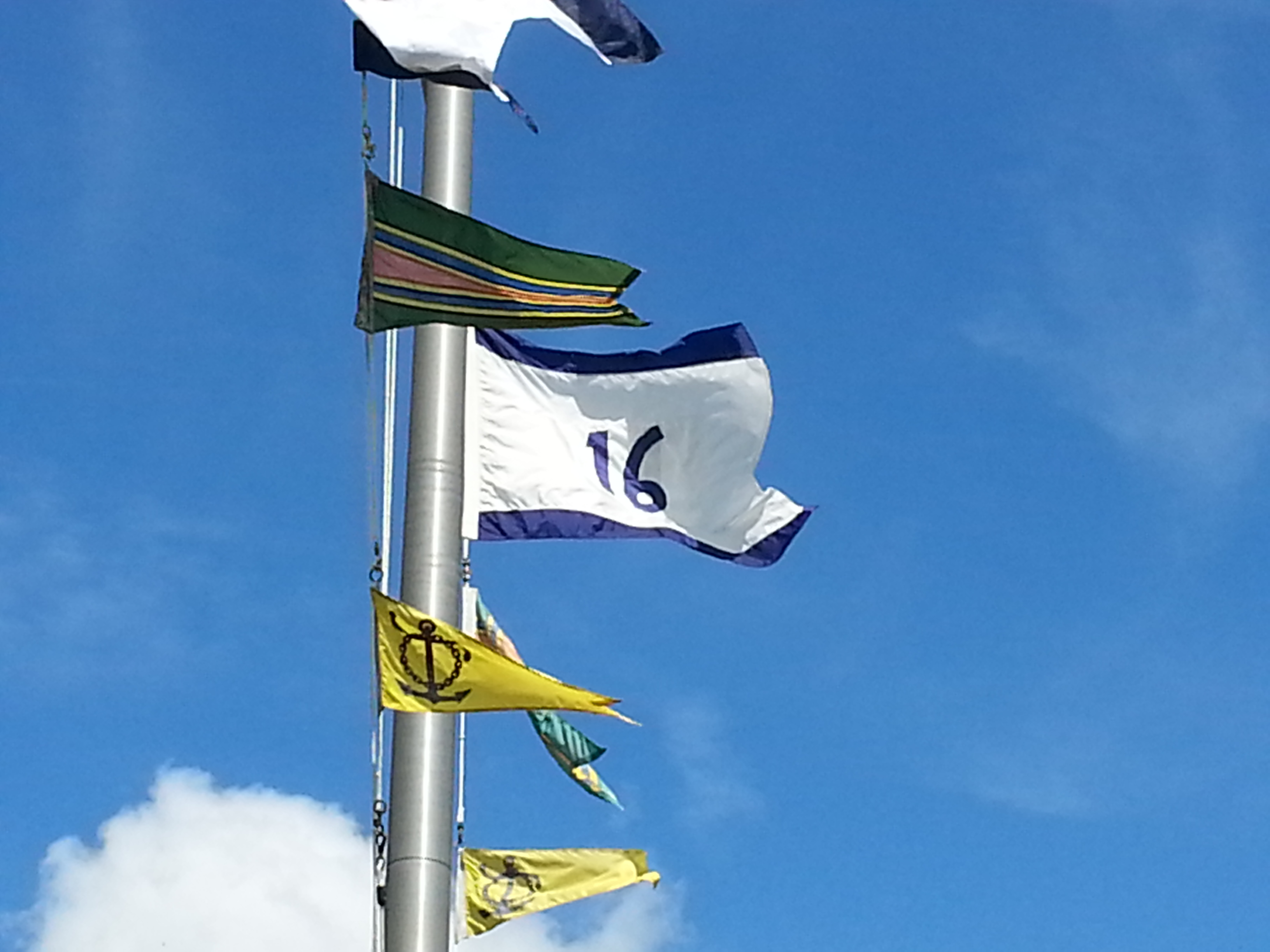 Photo of Commander, Submarine Squadron (CSS) 16 command pennant. The Commodore's pennant fly's above his headquarters facility located on Naval Submarine Base Kings Bay, adjacent to the town of St. Marys in Camden County, Georgia.